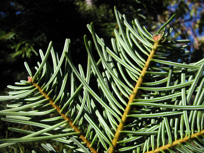 Abies concolor Description: Low's White Fir, Abies concolor subsp. lowiana, foliage underside. Viewpoint location: Soda Mountain Road about 0.6 km northeast of Soda Mountain, Cascade-Siskiyou National Monument Lat/Long: 42.0683°N, 122.4731°W (WGS84/NAD83) USGS Soda Mountain Quad [1] Viewpoint elevation: 5430' View direction: n/a Date and time: 2005.10.22 15:48:11 PDT Camera: Canon PowerShot S110 Photographer: Walter Siegmund ©2005 Walter Siegmund